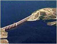 Picture of the Old Waddell Dam